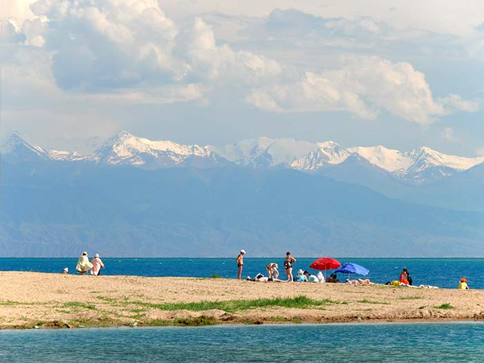 Beach Yssykköl Lake